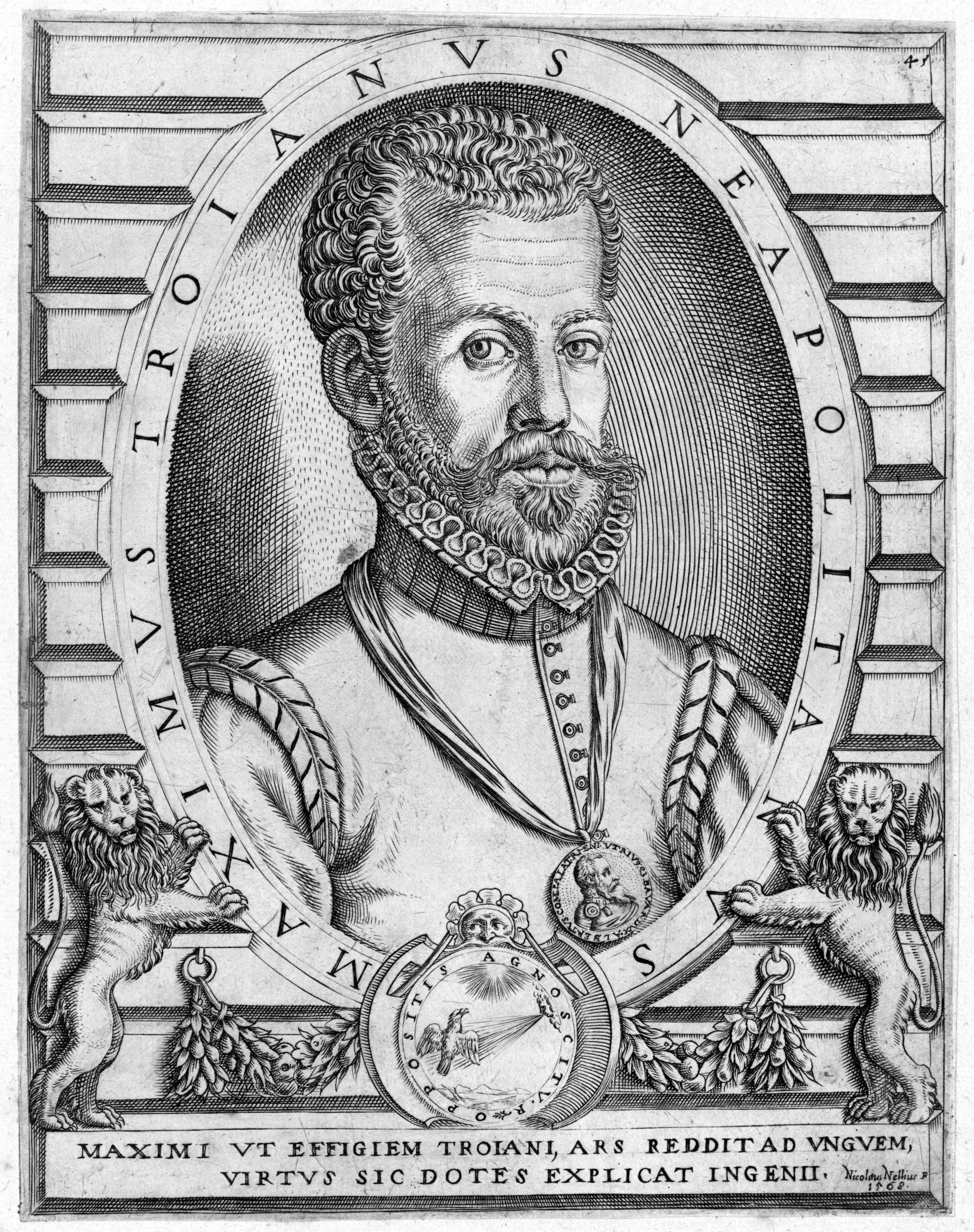 portrait engraving of Massimo Troiano, from his "Dialoghi" describing the Munich ducal wedding in 1568